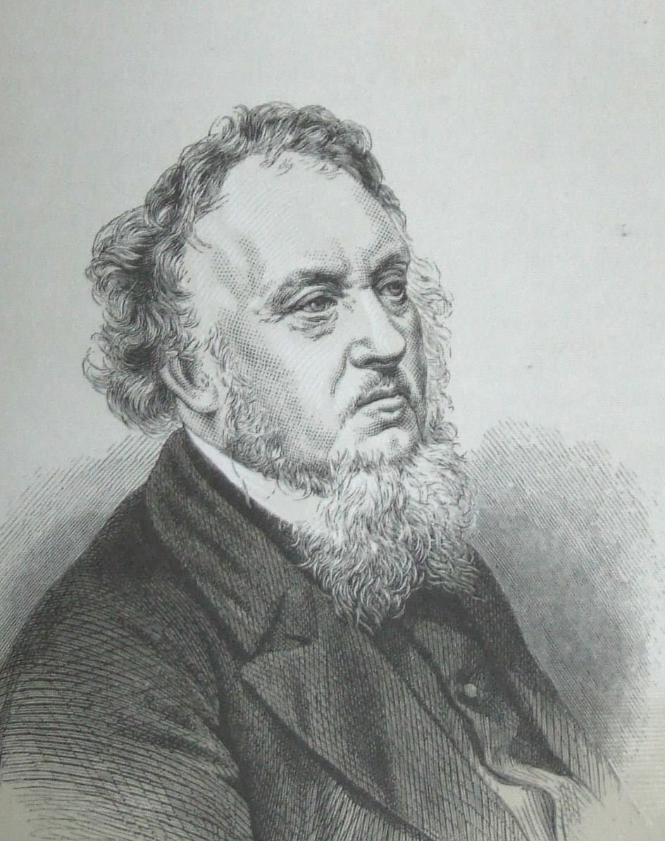 Portrait of Welsh-language poet, literary critic and grammarian William Williams ("Caledfryn") (1801-1869), published in Ceinion Llenyddiaeth Gymreig (1876).